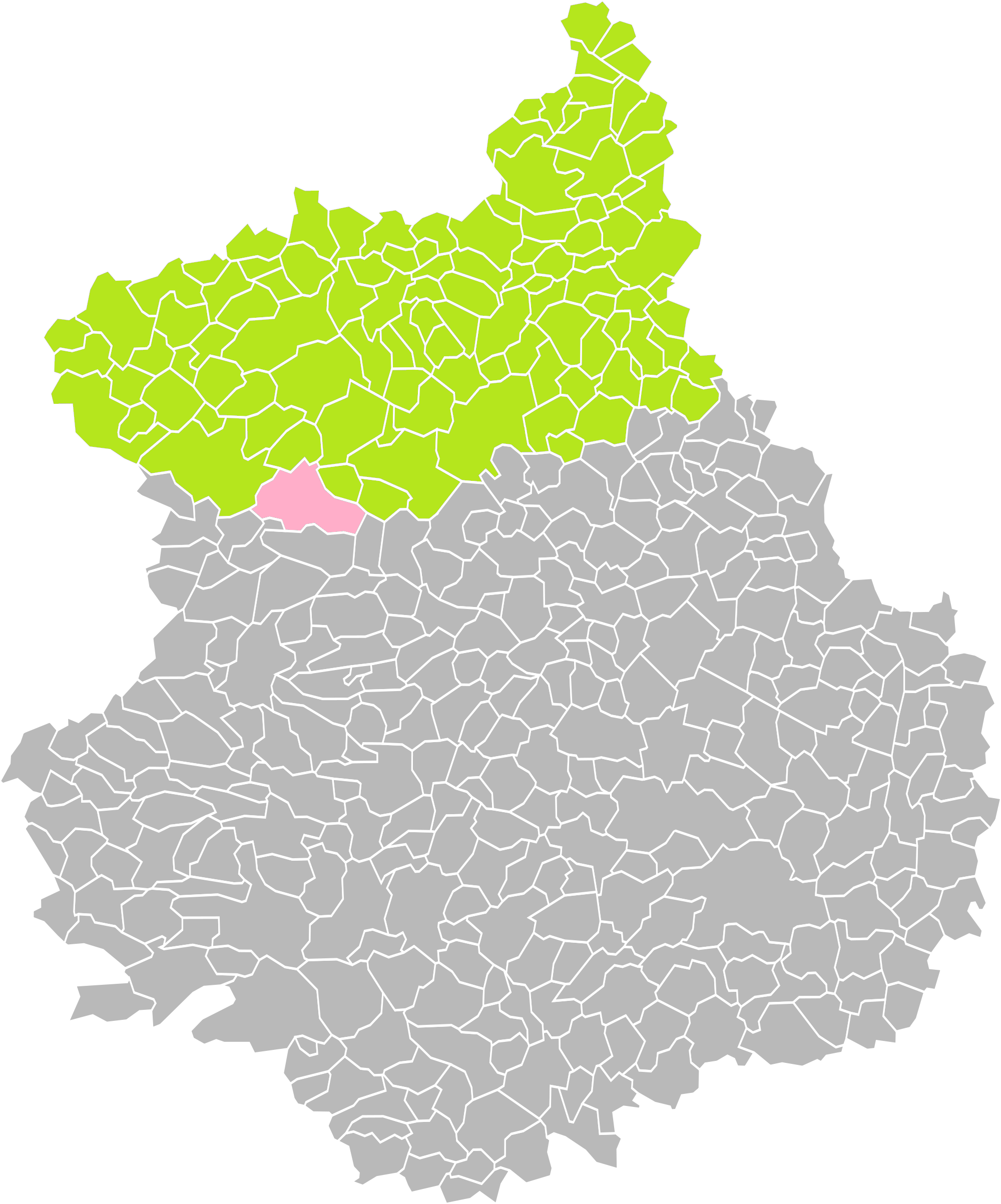 Location of the commune of Digny in the arrondissement of Dreux (Eure-et-Loir)